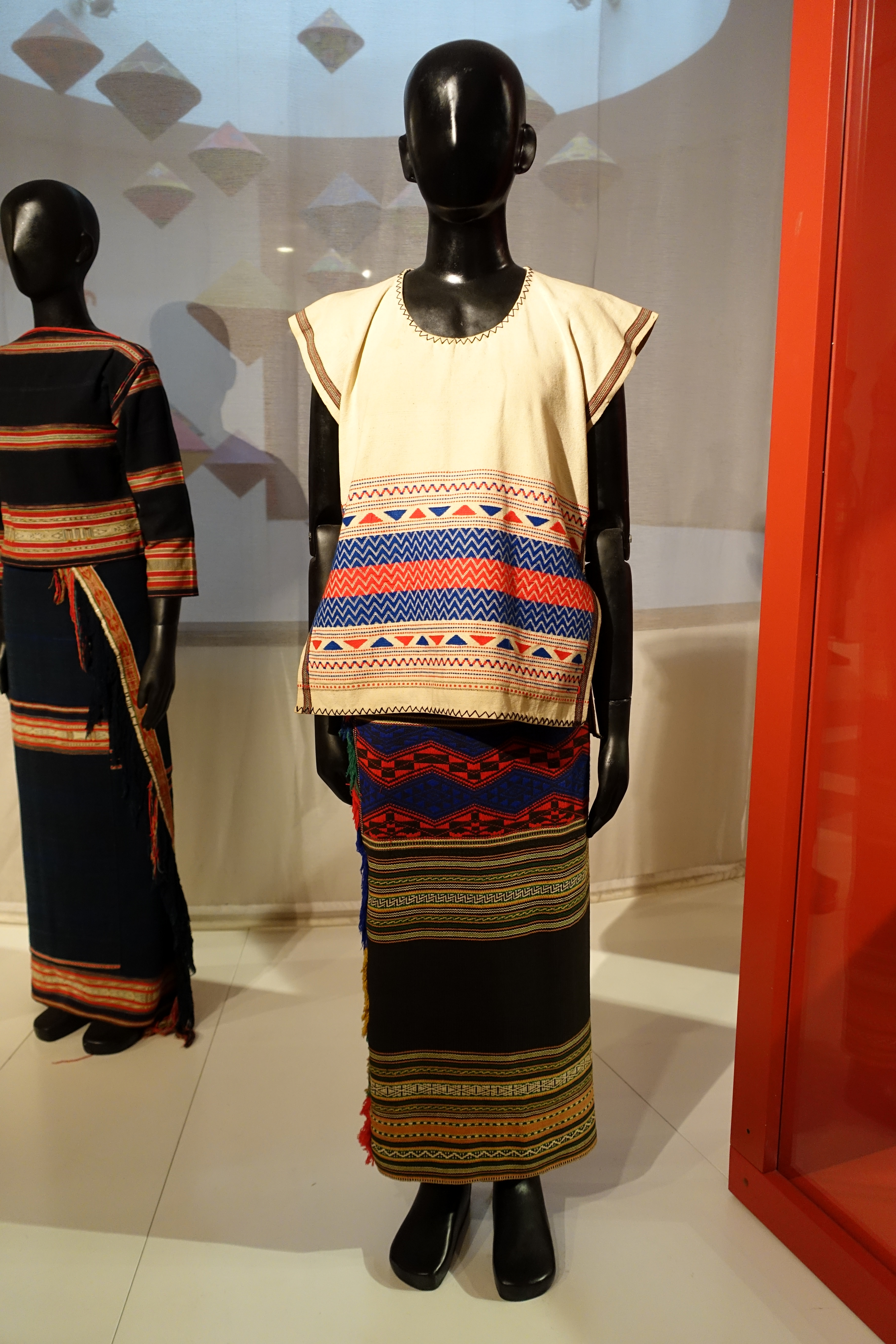 Exhibit in the Vietnamese Women's Museum, Hanoi, Vietnam.